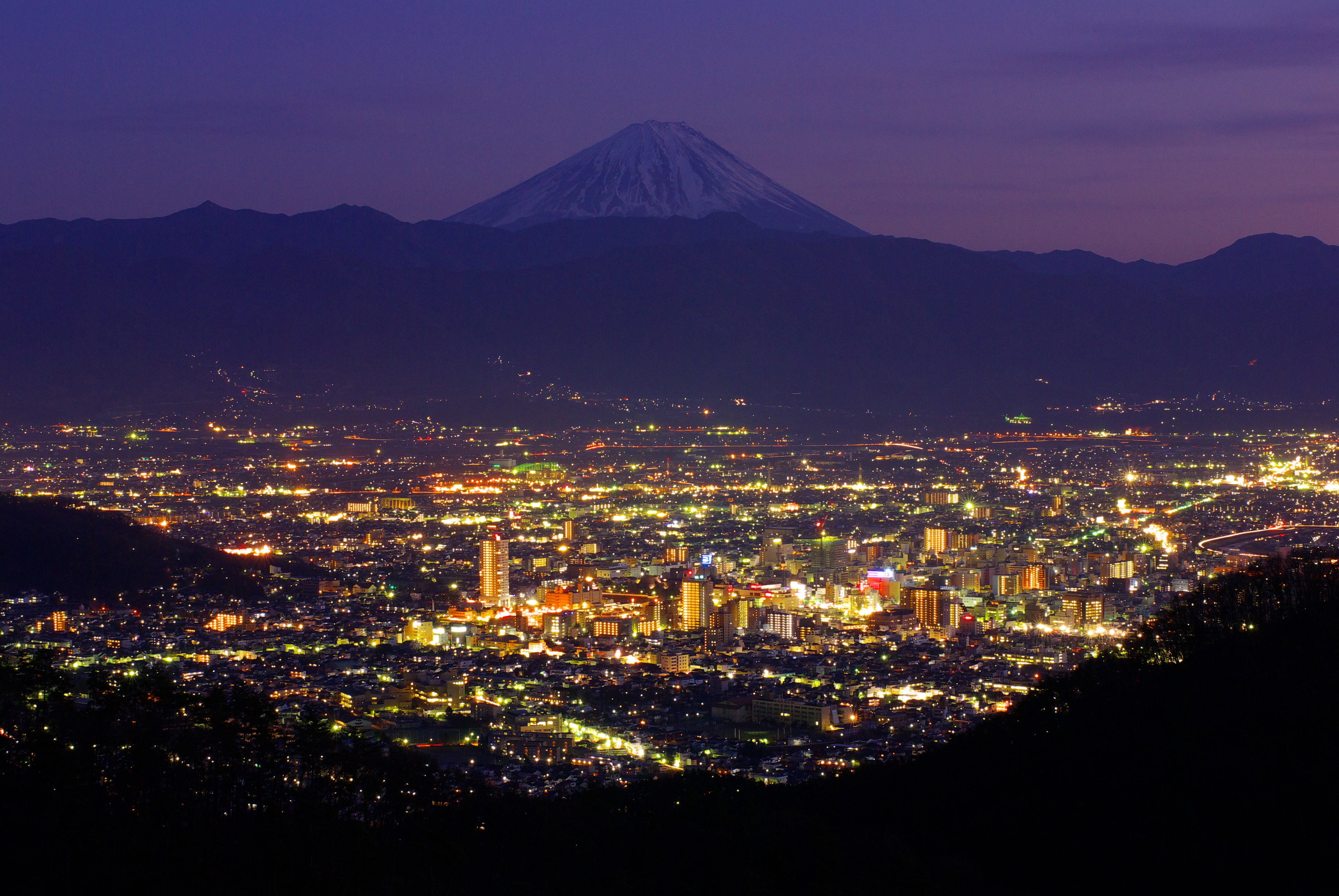 The night view of Koufu City